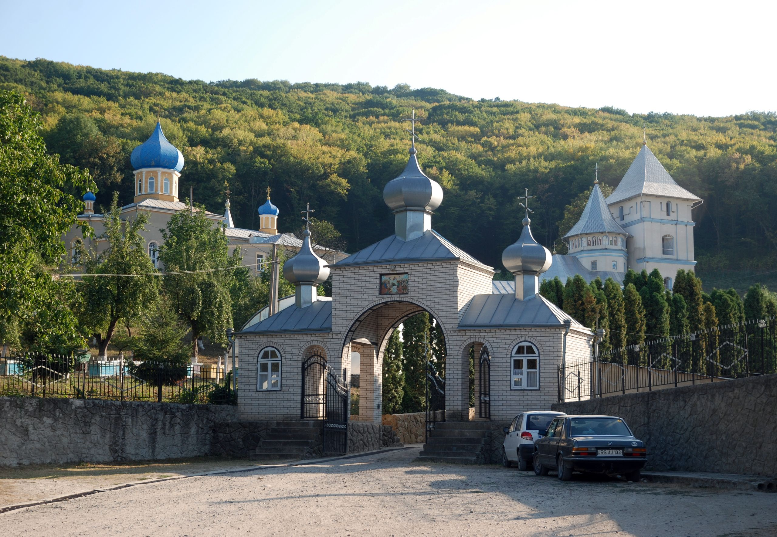 Călărășeuca Monastery, main entrance